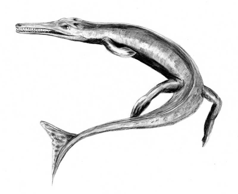 Cricosaurus suevicus, pencil drawing. Cricosaurus was a small, gracile genus of marine crocodyliform within the Metriorhynchidae famillia.